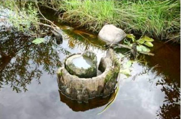 Remains of a brine tube of the Kovda river (Totma)